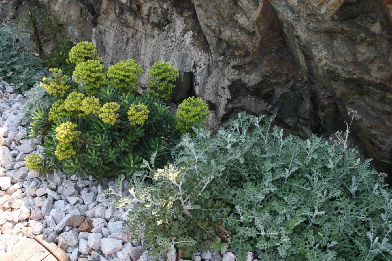 Euphorbia characias: Habit (also showing: Jacobaea maritima)